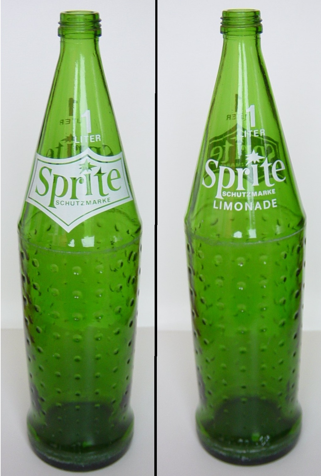 German 1 liter Sprite bottle. Used End of 1960ths, this Bottle is from 1972. Botteled in Berlin Charlottenburg